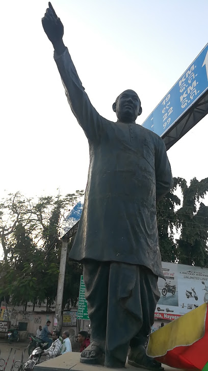 Sstatue of Bhagabat Behera